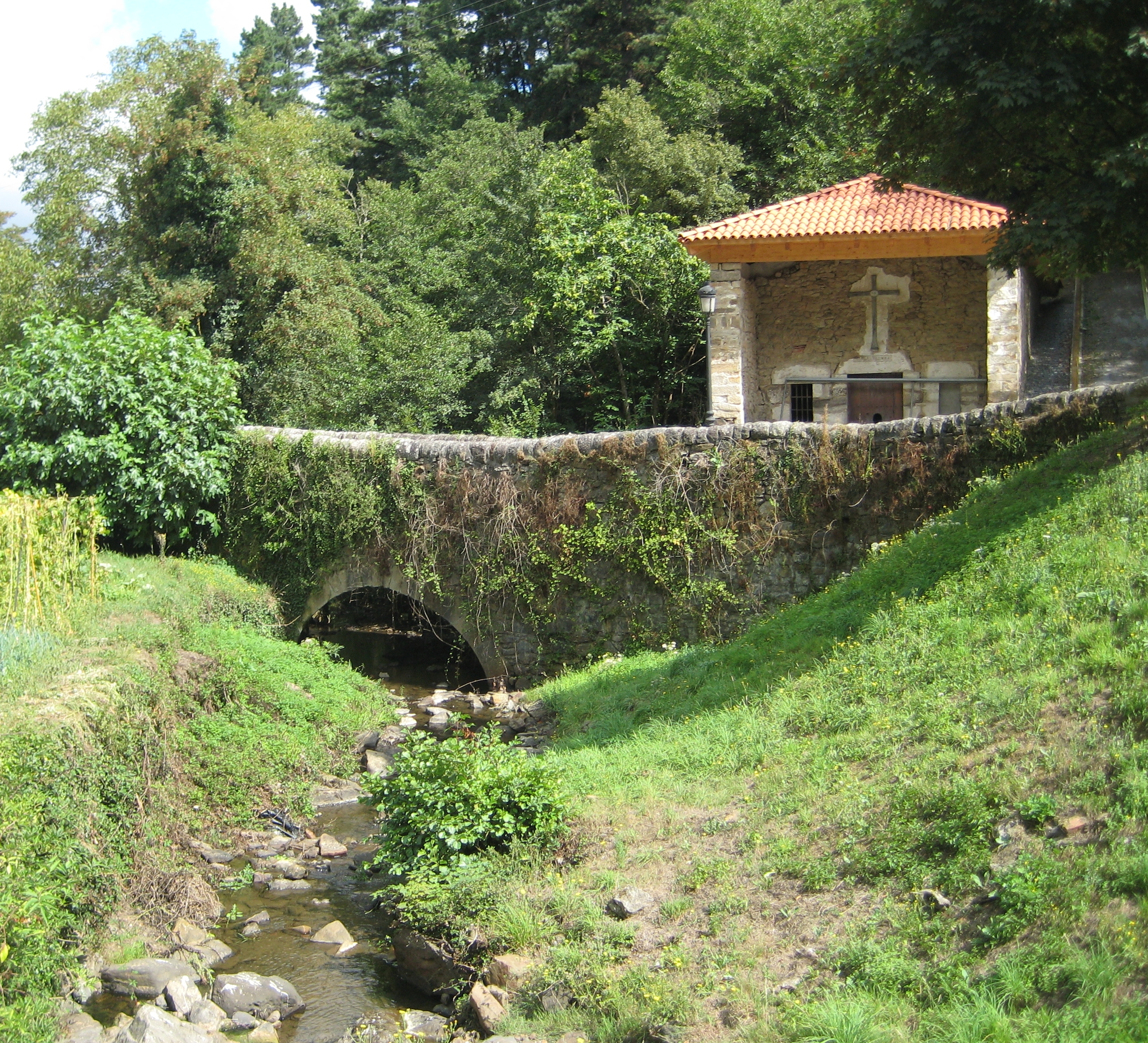 Church or hermitage of Saint Columba (probably Columba of Cordova) and brige over the river Deba, in Dorleta, Leintz Gatzaga / Salinas de Leniz, Gipuzkoa.